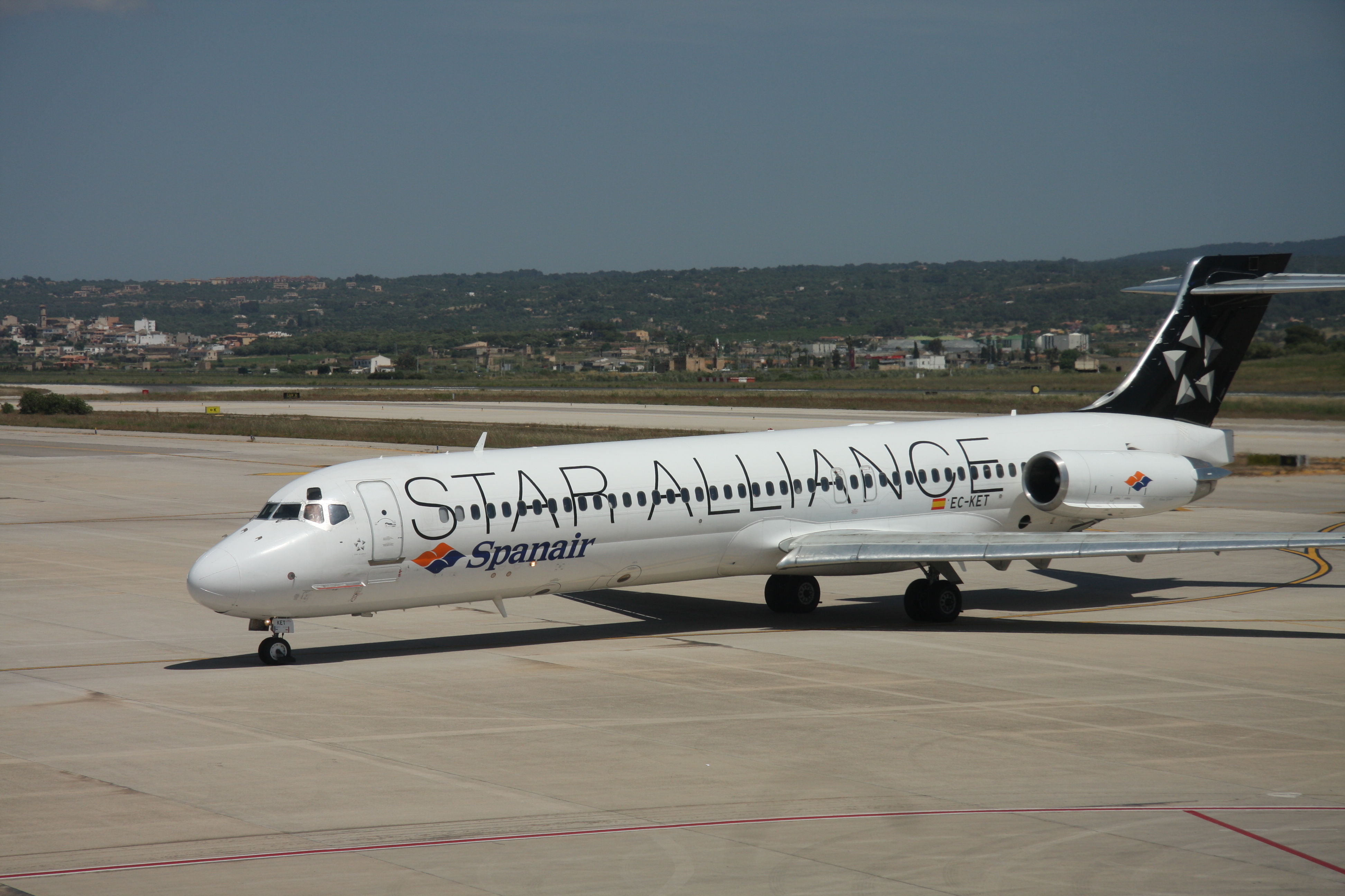 MD 87 (Registration EC-KET) of the Spanish airline Spanair, seen at Palma de Mallorca Airport